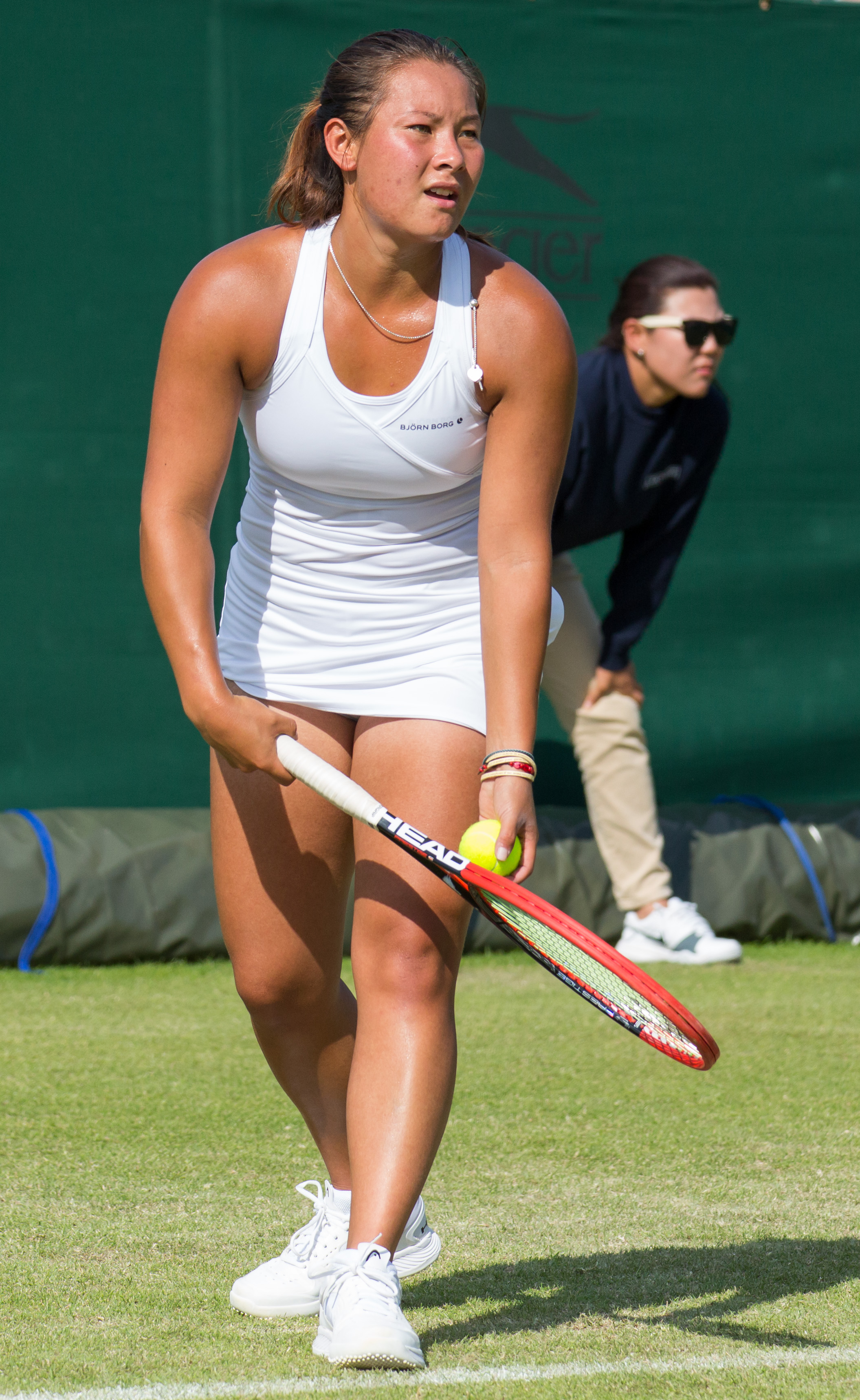 Tara Moore competing in the first round of the 2015 Wimbledon Qualifying Tournament at the Bank of England Sports Grounds in Roehampton, England. The winners of three rounds of competition qualify for the main draw of Wimbledon the following week.